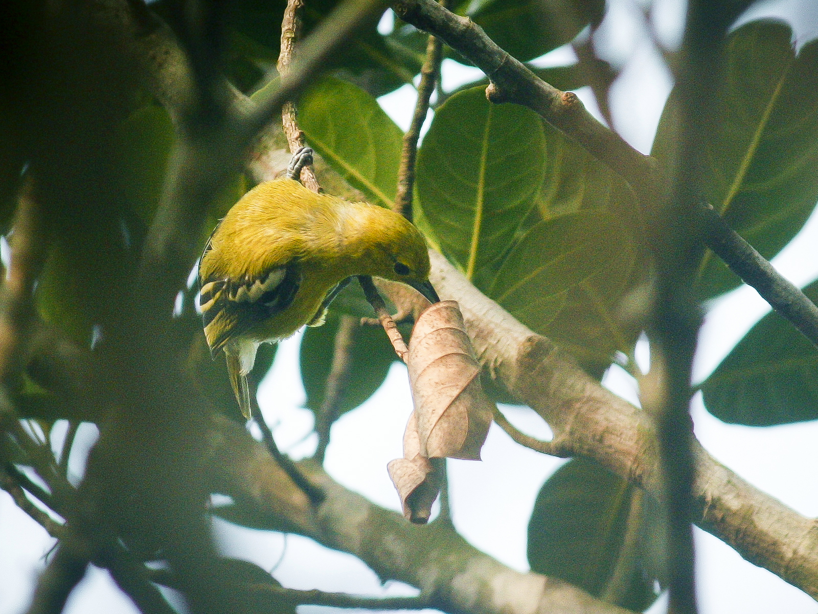 Common Lora (Aegithira tiphia)